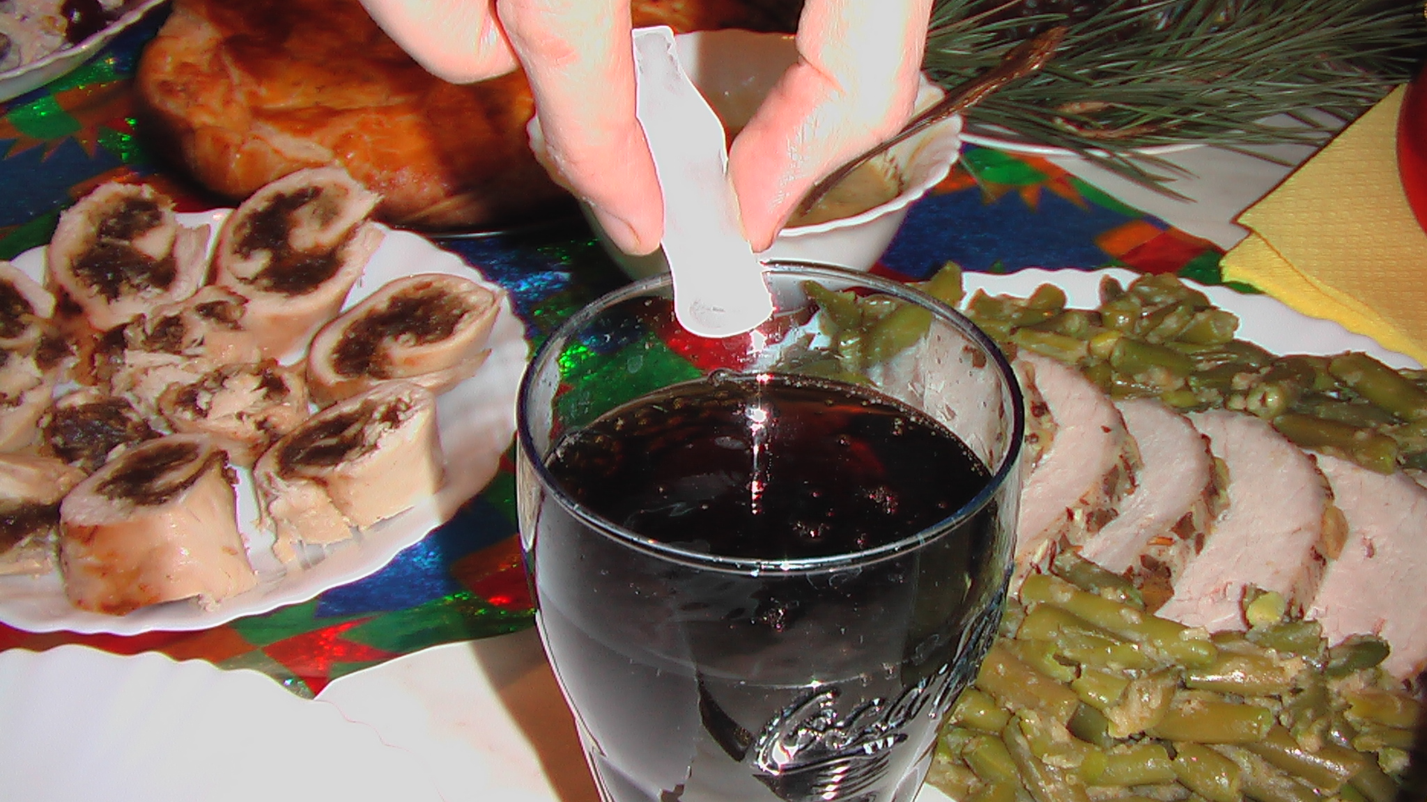 Ice dropped into the glass with cola